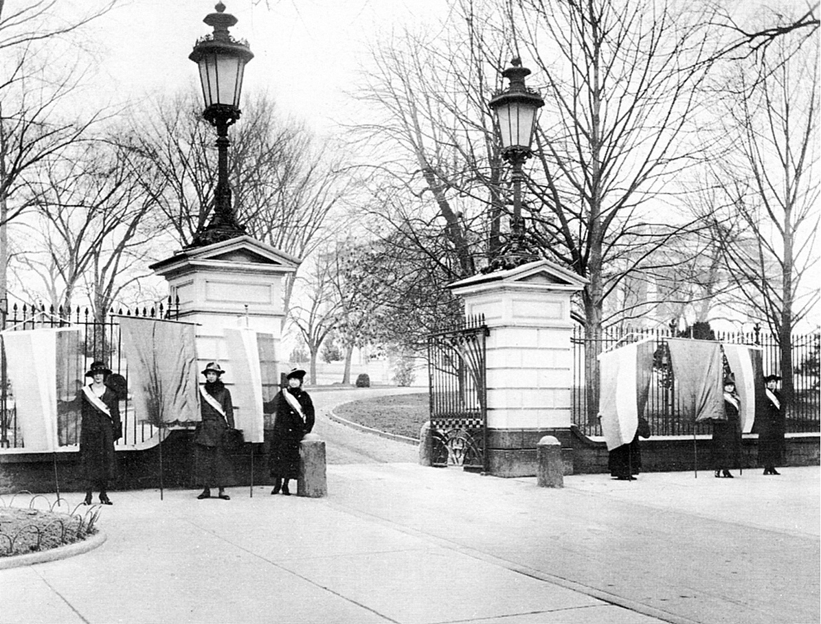 Suffragists picketing the White House, January 1917